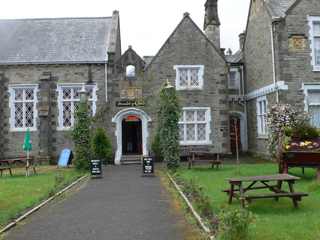 Neuadd y Cyfnod, Bala This hall, now a restaurant, used to be the old Grammar School at Bala. It had a close connection with Jesus College, Oxford, and the coat of arms of the college is shown on the front wall of the building. Edward Meyrick, born near Corwen, bequeathed money to build the school and he also bequeathed a large sum of money to Jesus College.